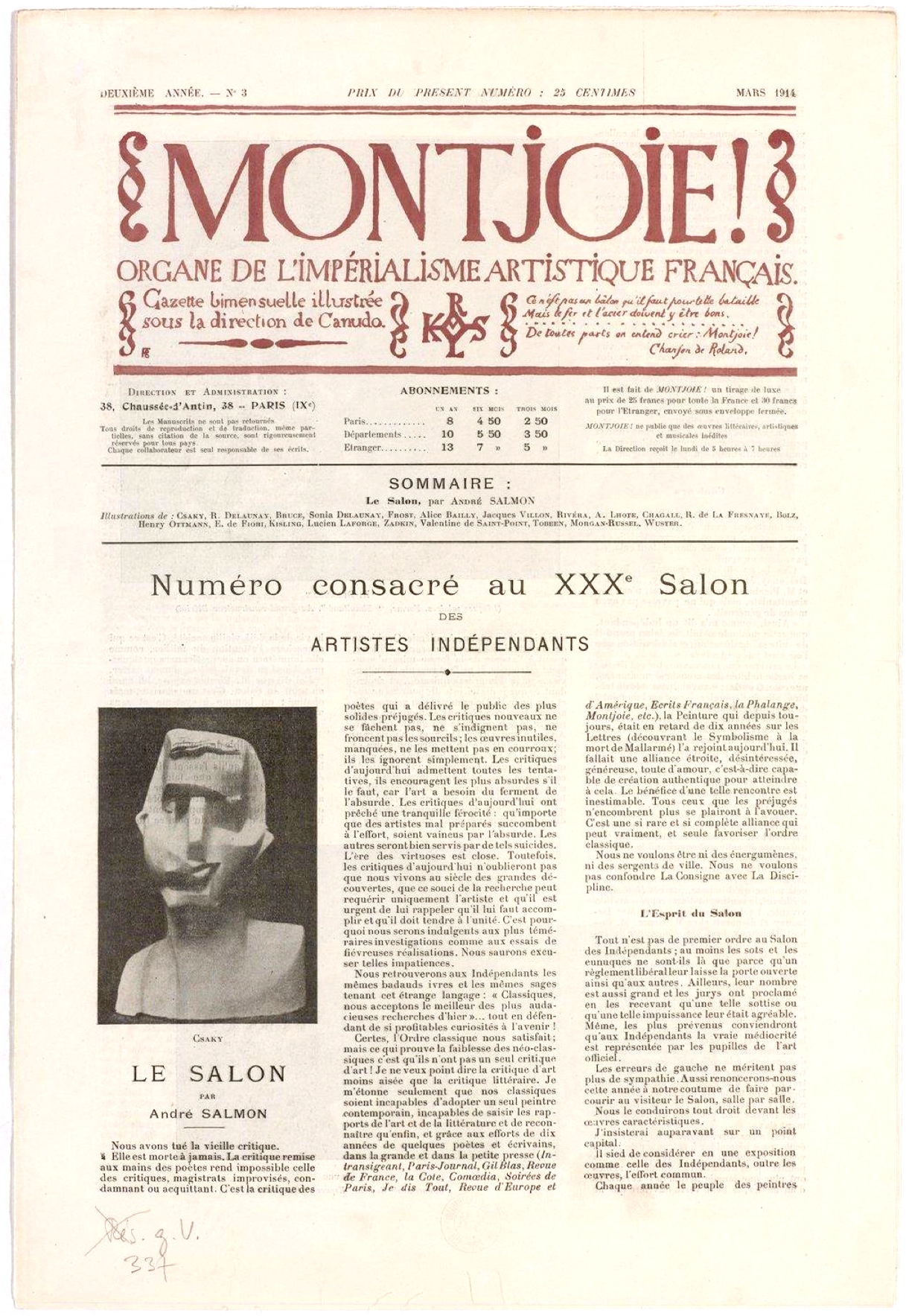 Montjoie!, text by André Salmon, sculpture by Joseph Csaky, 3rd issue, 18 March, 1914 (a review of the 30th Salon des Indépendants)